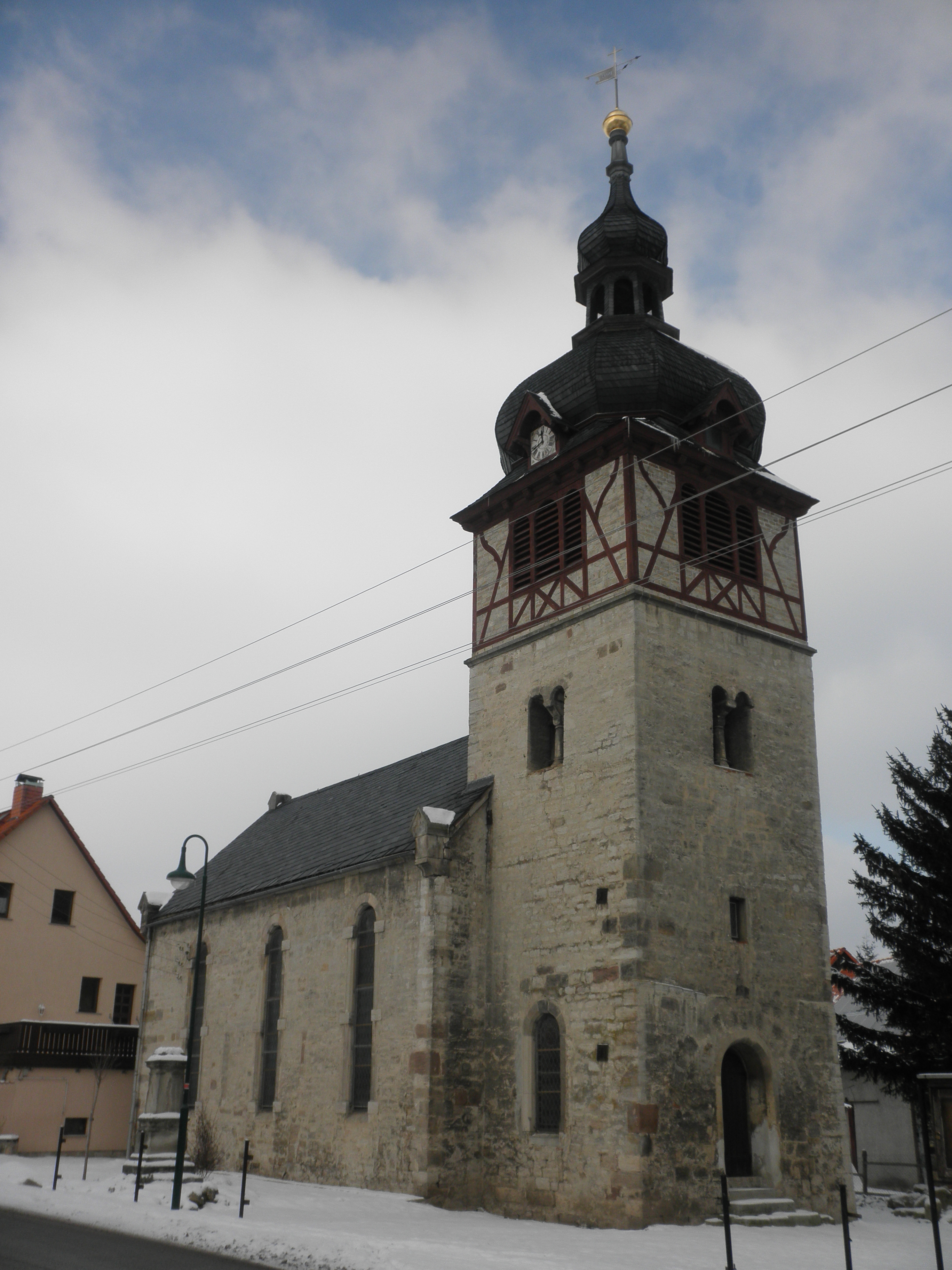 Church in Thangelstedt in Thuringia